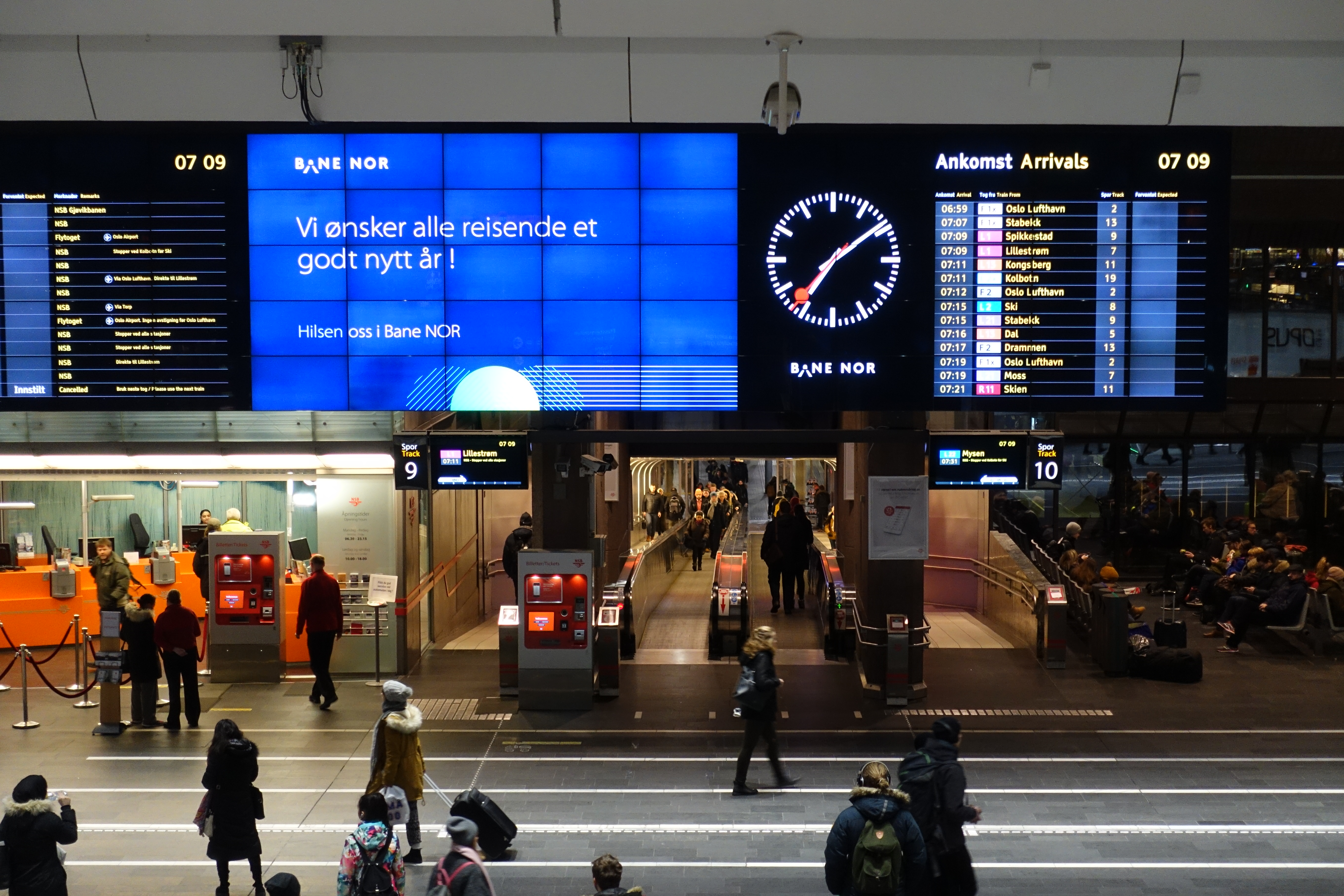 The new railway entity in Norway, Bane NOR gives a greeting to travellers at the central station in Oslo